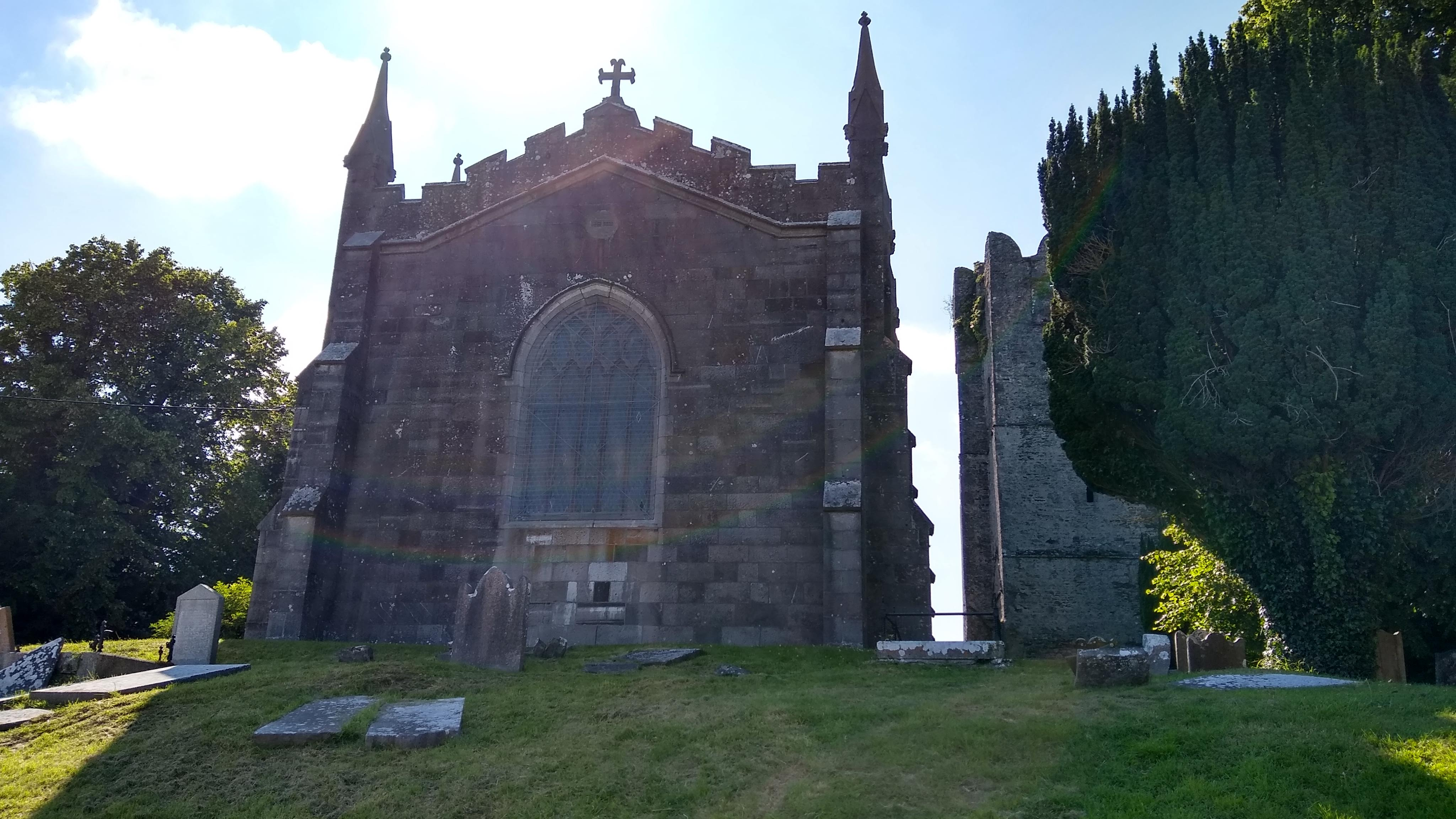 St Columba' s Church of Ireland church and graveyard